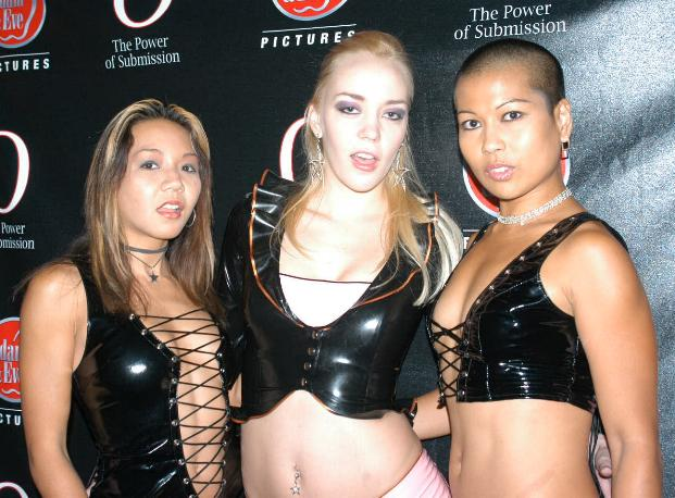 Keeani Lei, Annette Schwarz and Max Mikita at Adam and Eve party for movie O: The Power of Submission, September 14 2006